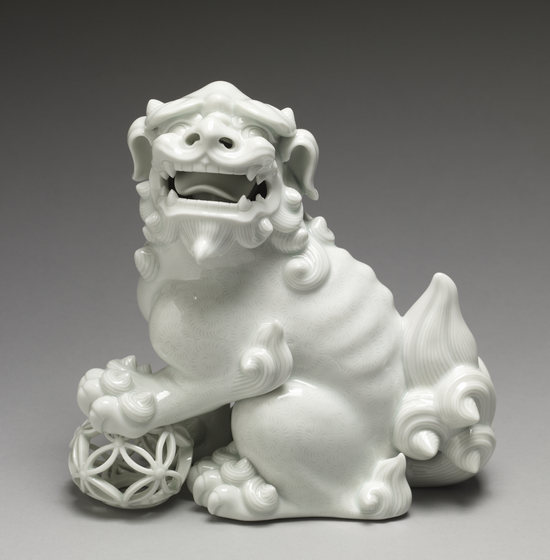 This is an example of Hirado ware.